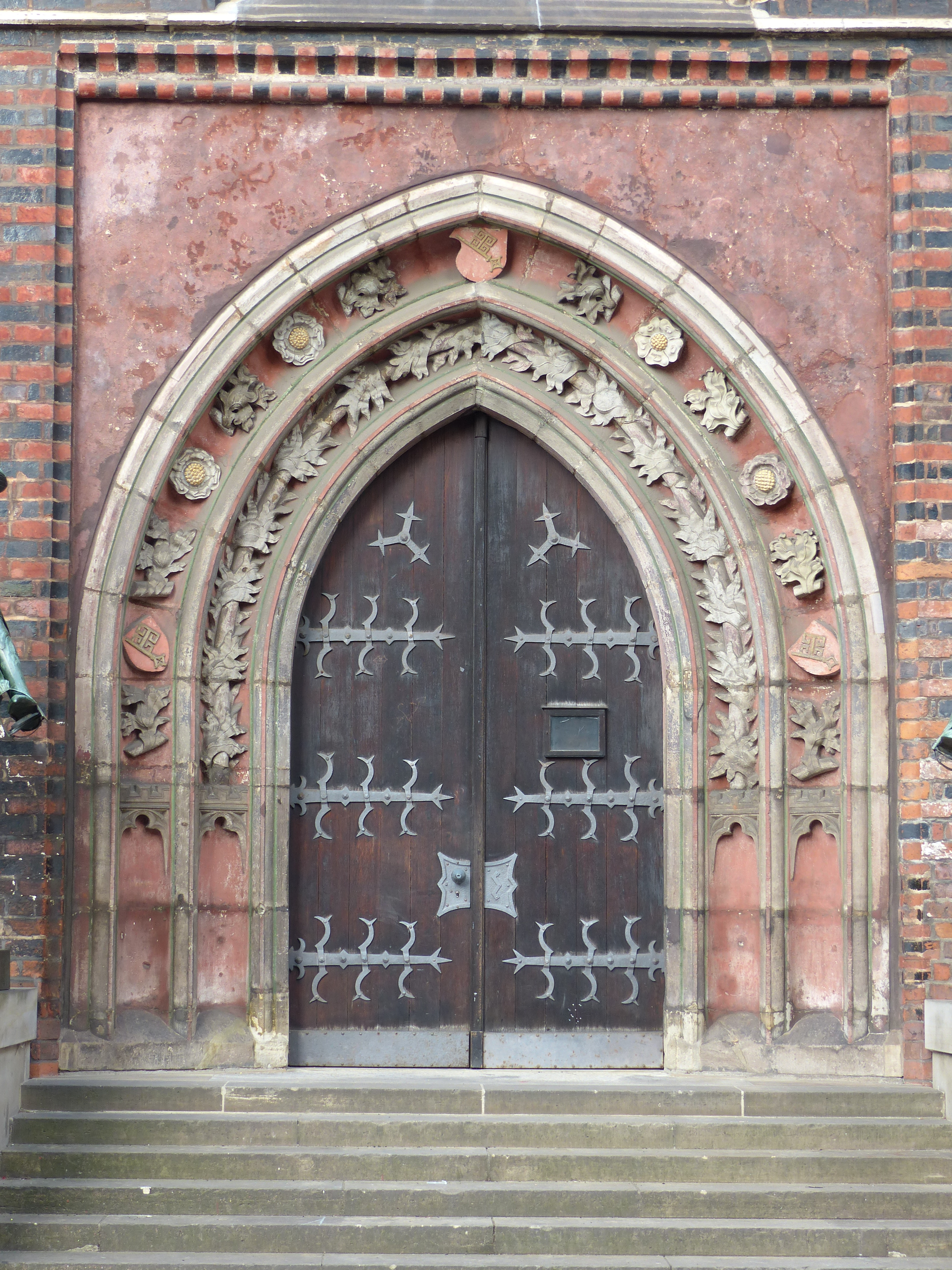 Bremen, southeastern portal of the lower hall of the town hall, wings